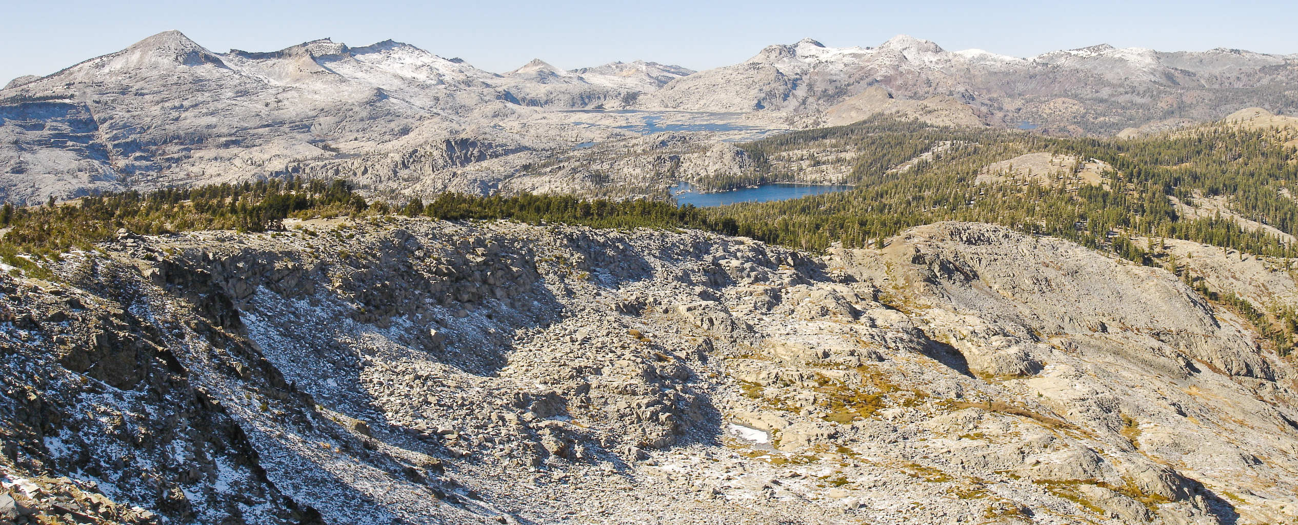 Views of the snow-dusted peaks of the Desolation Wilderness, California, from the summit of Ralston Peak.